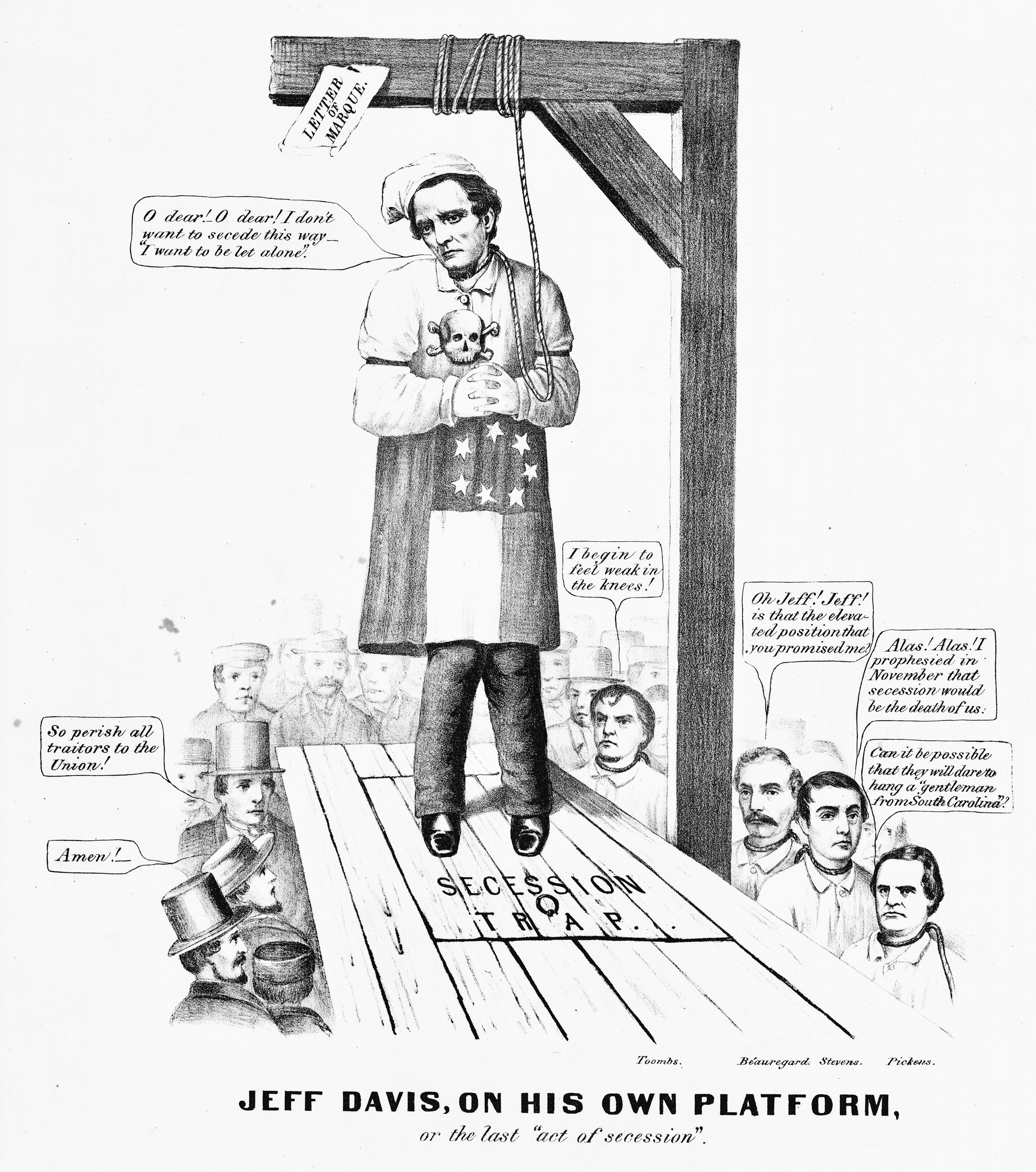 Title: Jeff Davis, on his own platform, or the last "act of secession" Description: Currier & Ives cartoon engraving from US Civil War depicting Jefferson Davis on a gallows. Davis has a noose around his neck, about to be hung. The gallows bar has a note reading "Letter of Marque"; the trap door under his feet reads "Secession Trap". Davis says, "O dear! O dear! I don't want to secede this way. 'I want to be let alone'." To the left of the gallows platform, male spectators say "So perish all traitors to the Union!" "Amen!" To the right of the platform, 4 prominent Confederates await their turns to be hung with nooses around their necks. [Robert] Toombs: "I begin to feel weak in the knees!" [P.G.T.] Beauregard: "Oh Jeff! Jeff! Is that the elevated position that you promised me?" [Alexander] Stevens: "Alas! Alas! I prophesied in November that secession would be the death of us!" [Francis Wilkinson] Pickens: "Can it be possible that they will dare to hang a 'gentleman from South Carolina'?" 1861 (per copy at [1])